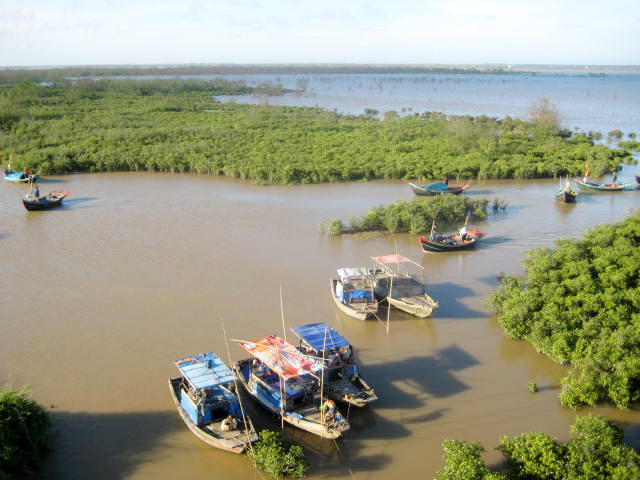 The Landscape of Xuan Thuy National Park (Nam Dinh Province, Northvietnam). Mangrove forests, fisher boats, mouth of the red river.